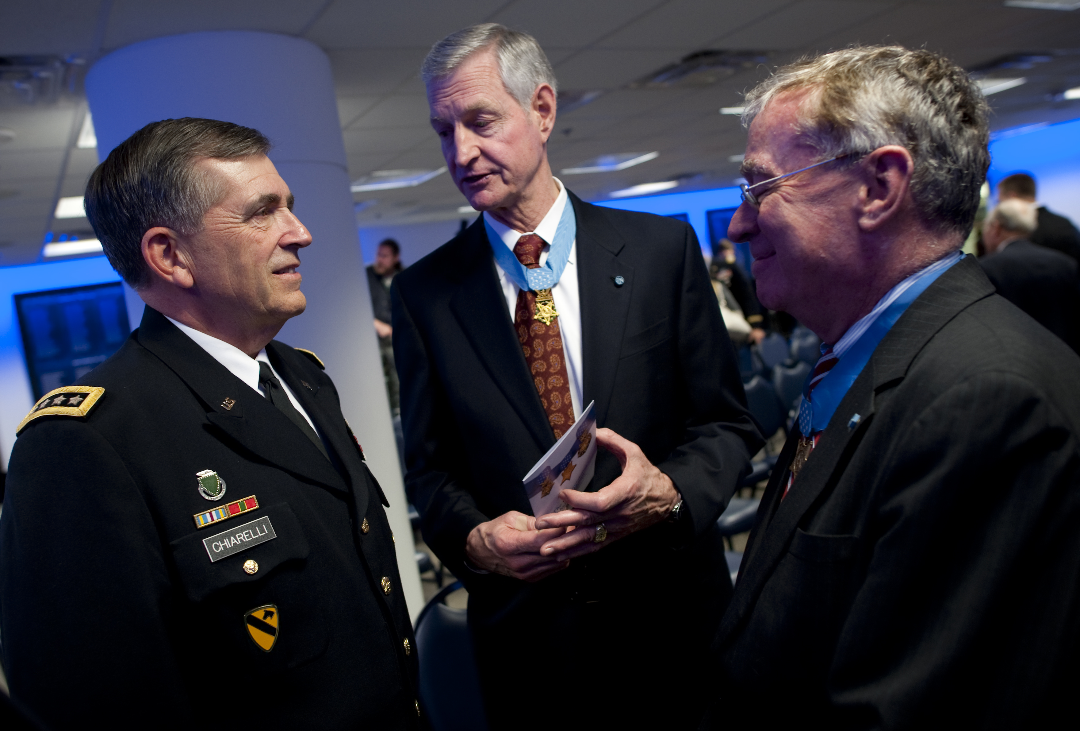 Army Vice Chief of Staff Gen. Peter Chiarelli, left, speaks with Medal of Honor recipients Robert F. Foley, center, and Thomas G. Kelly at a ceremony honoring the 150th anniversary of the Medal of Honor at the Pentagon's Hall of Heroes in Washington, D.C., March 25, 2011.